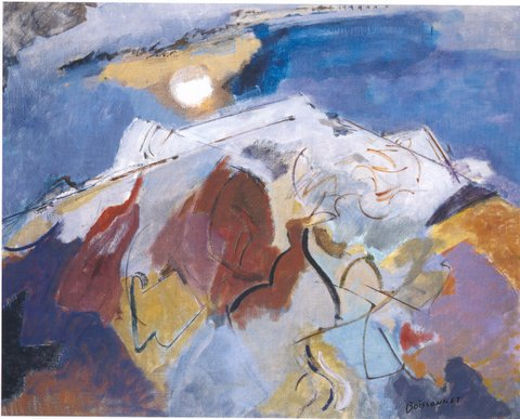 Edmond Boissonnet Huile sur toile, 1987.